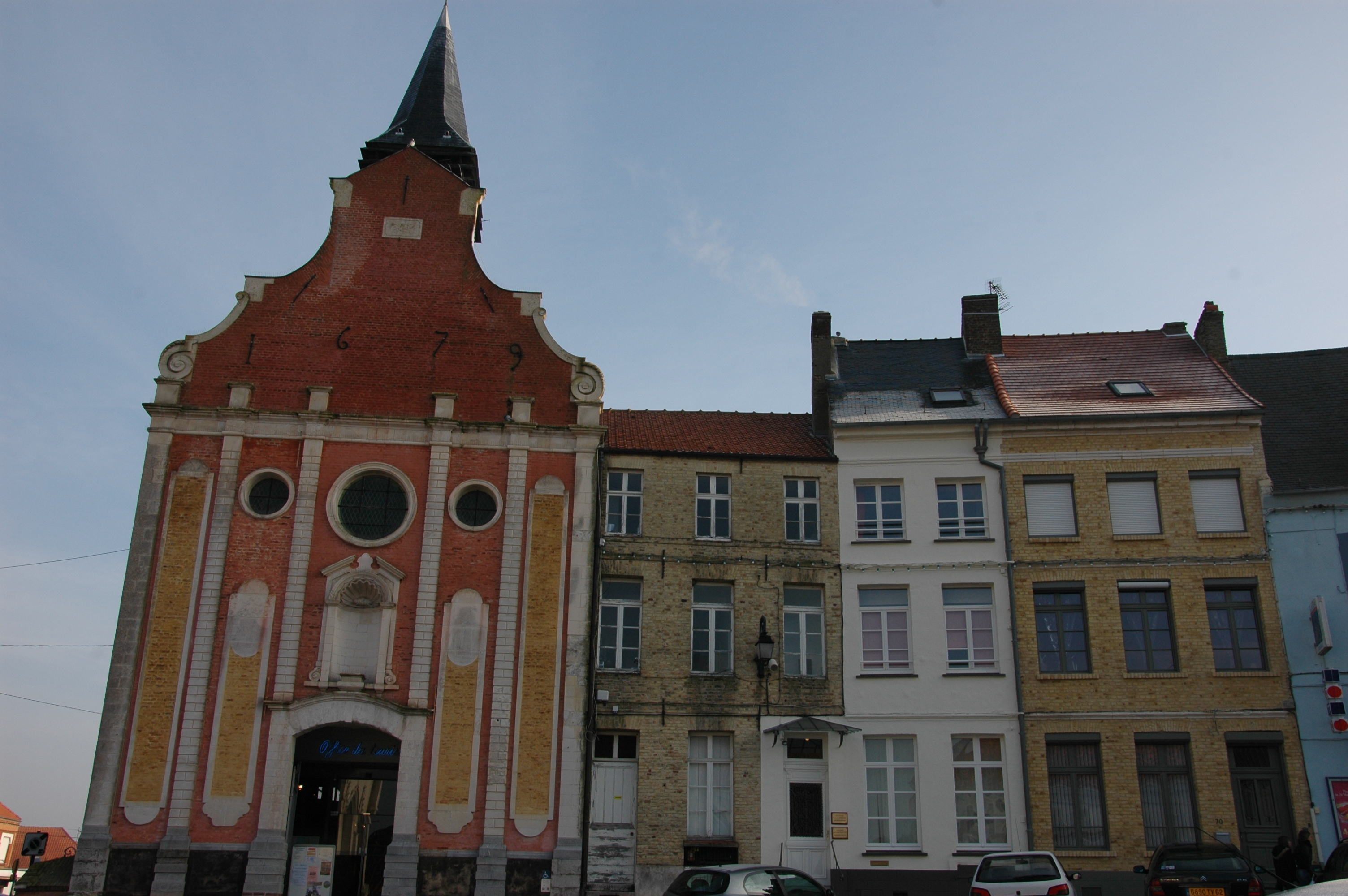 Ardres visitor center.